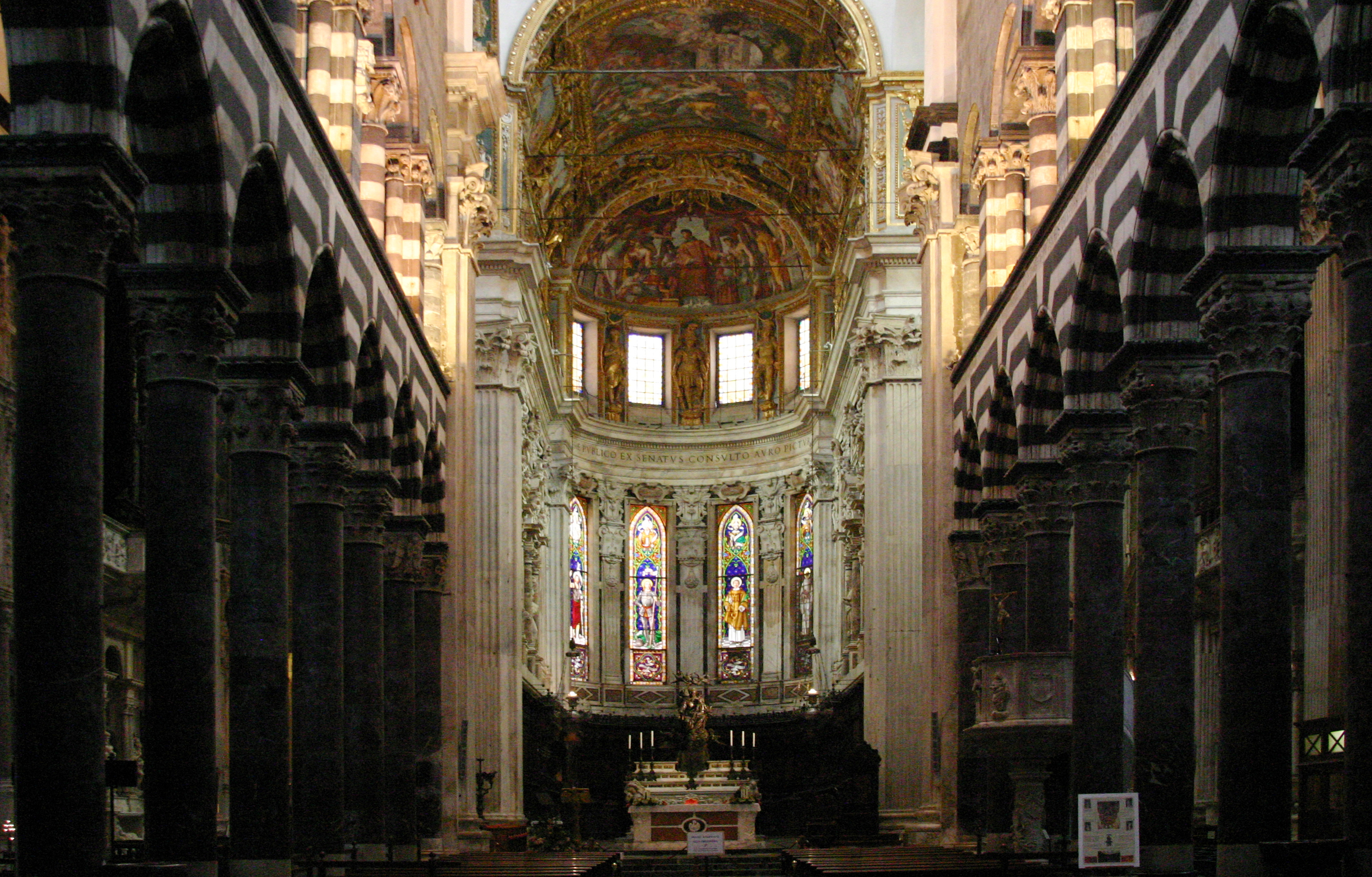 Interior of Genoa Cathedral (San Lorenzo)